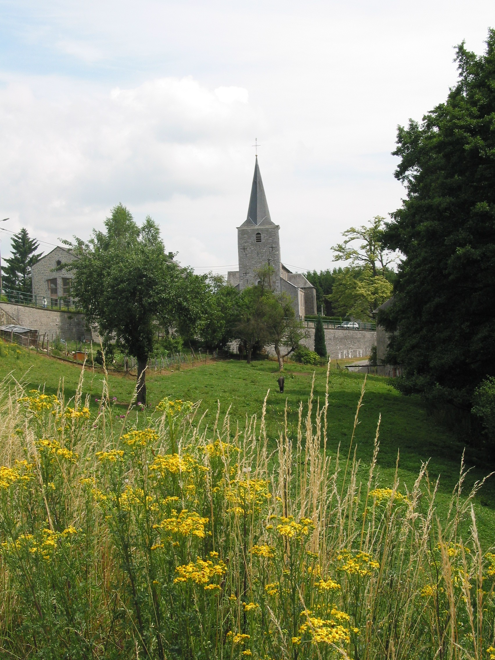 Hamois (Belgium), the Saint Peter’s church neighbourhood.